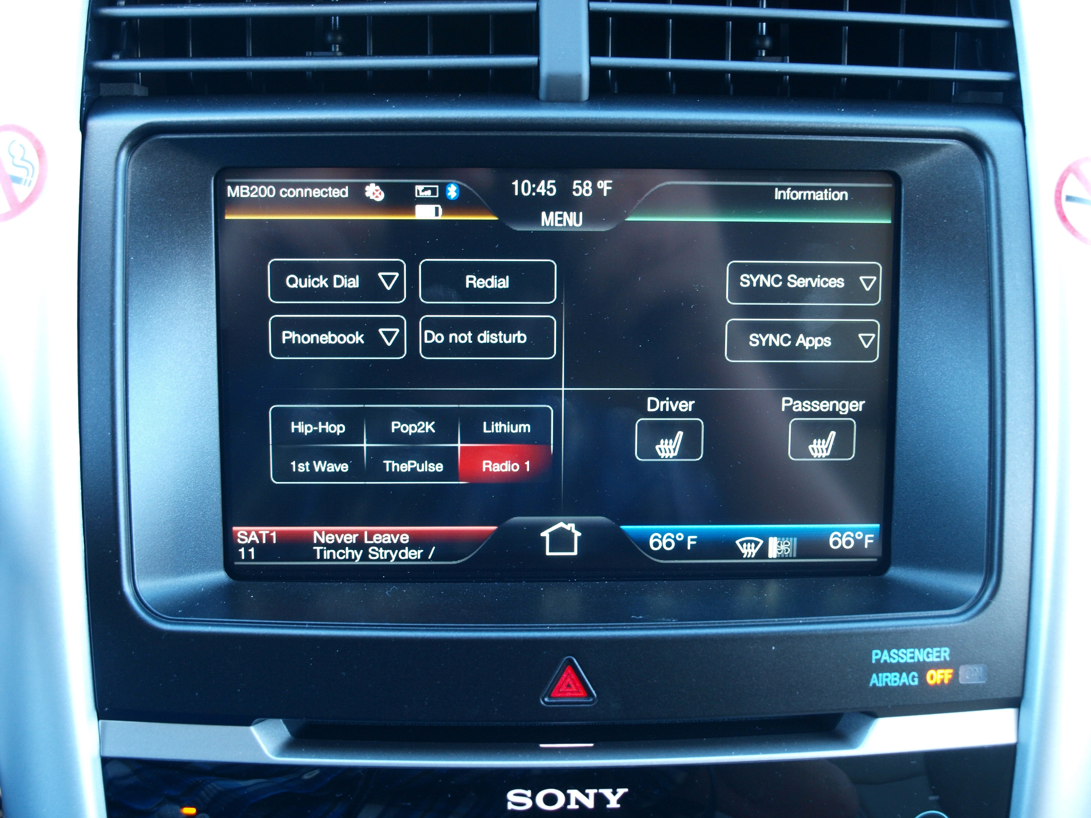 Ford MyFord Touch system, combined with SYNC.